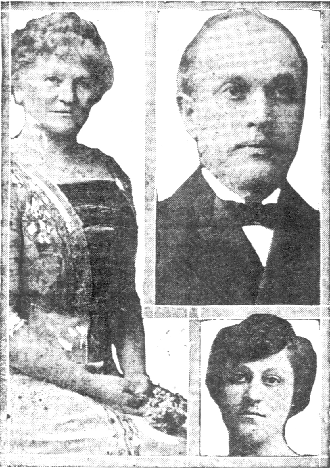 Family (wife on the left, daughter on the bottom) of Moses Alexander